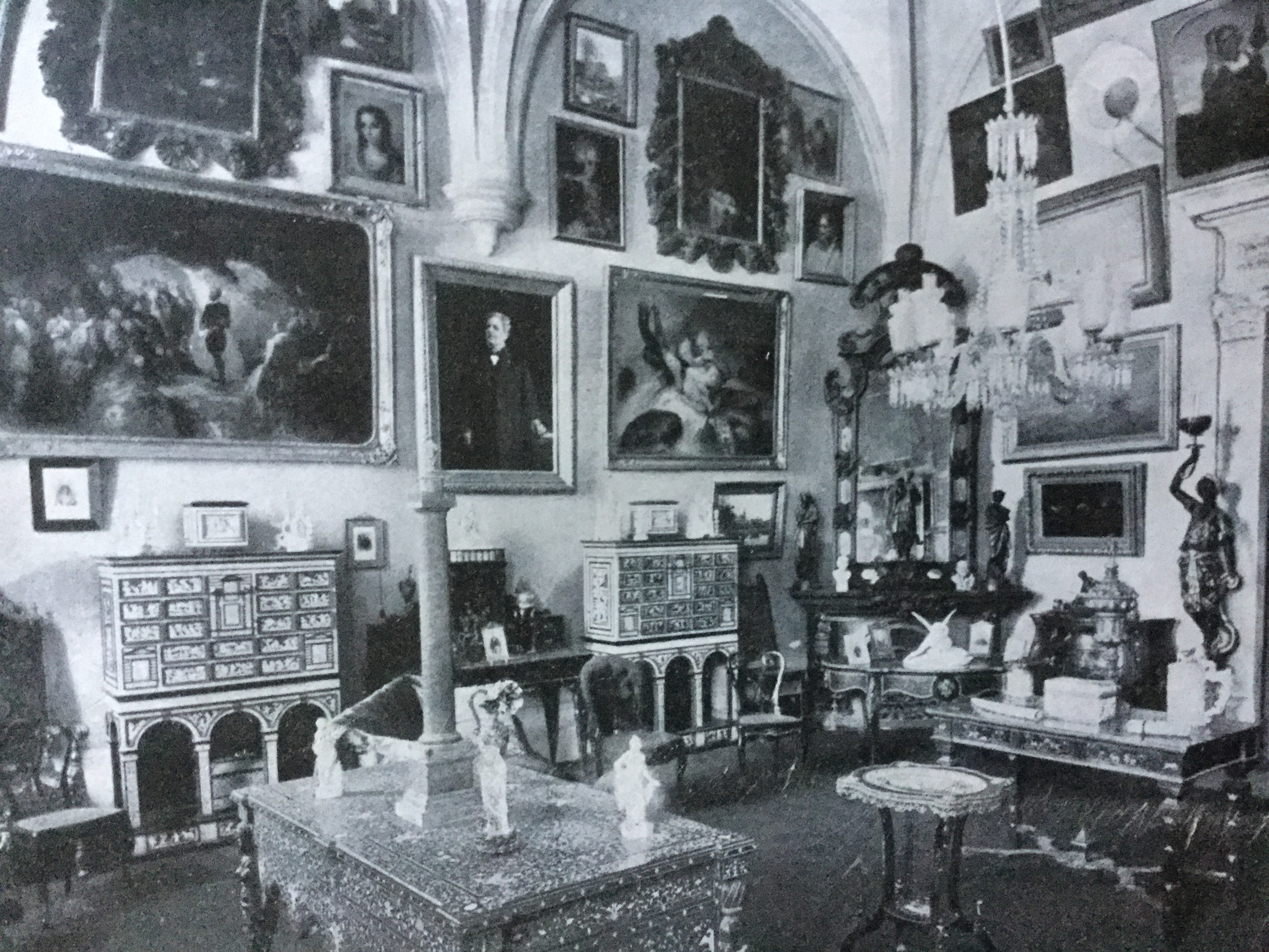 A room of the Palácio Ameal, Coimbra, c. 1920, displaying items from the art collection of João Maria Correia Ayres de Campos, 1st Count of Ameal.